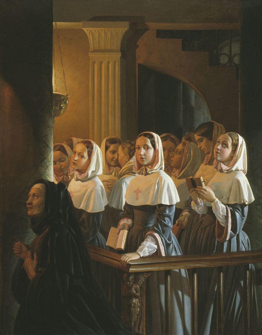 Nuns on kliros